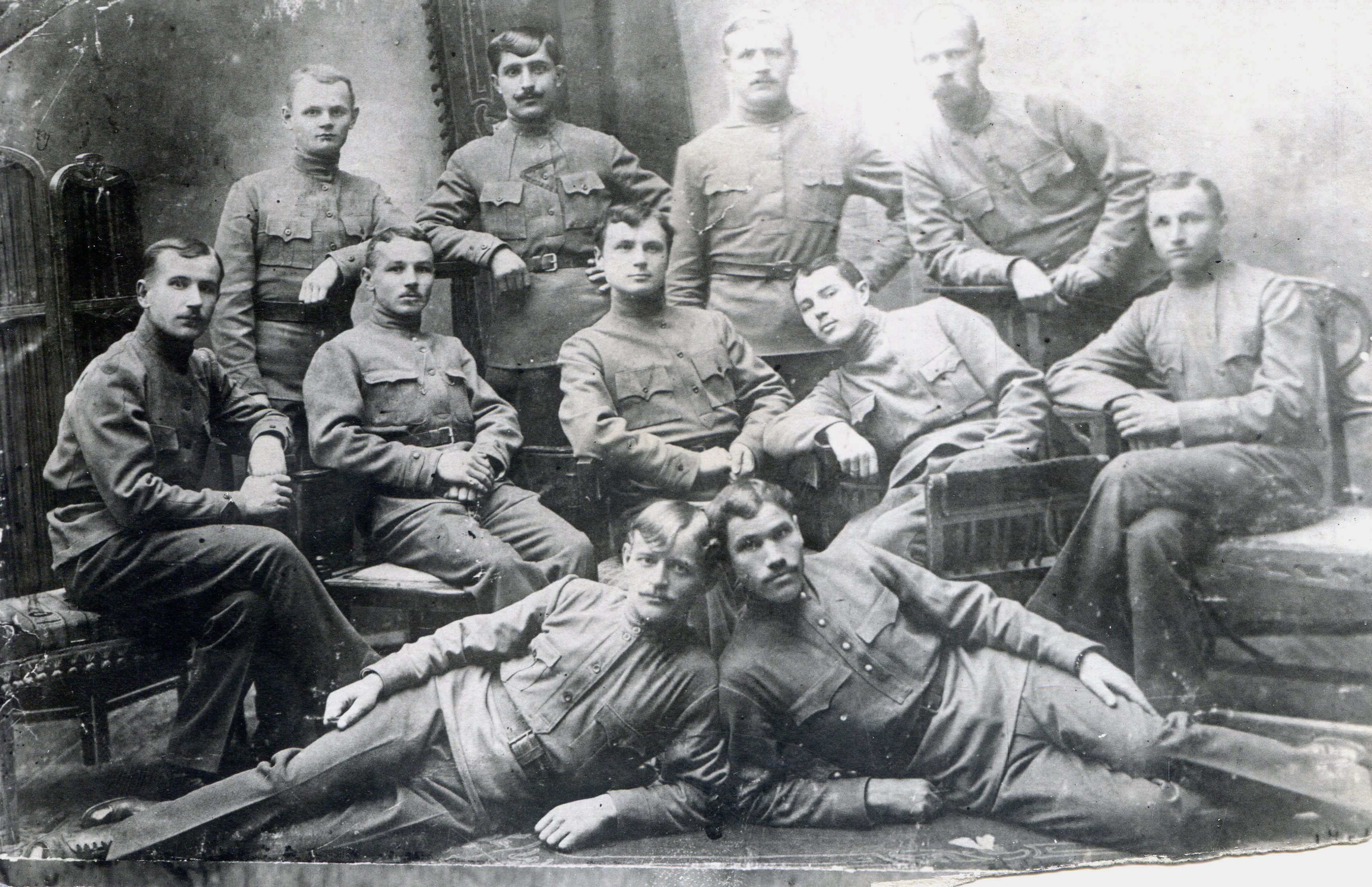 Commanders of the Tashkent fortress. 1918. Assistant to the chief of educational team of garrison of fortress Shesharin, Kazakov, etc. Shesharin, Kazakov - K. Osipov's shot agents in fortresses by means of which Osipov had to occupy fortress in Tashkent in January, 1919.